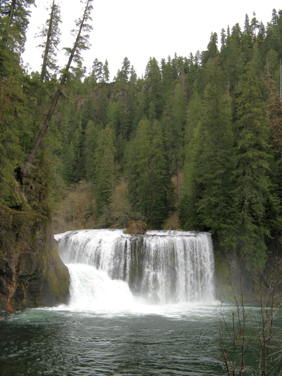 Upper Falls, Lower Falls Recreation Area, April 2010